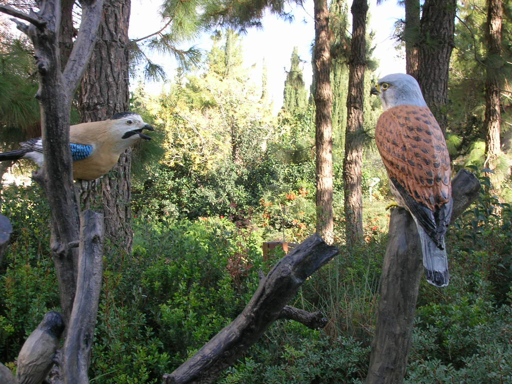 This picture shows one exhibit out of the whole Bird Migration Trail exhibition in Edmund J. Safra Campus of the Hebrew Univesity of Jerusalem. The exhibition was made by Nature Parks and Galleries (NPG), a sub-unit in the university.